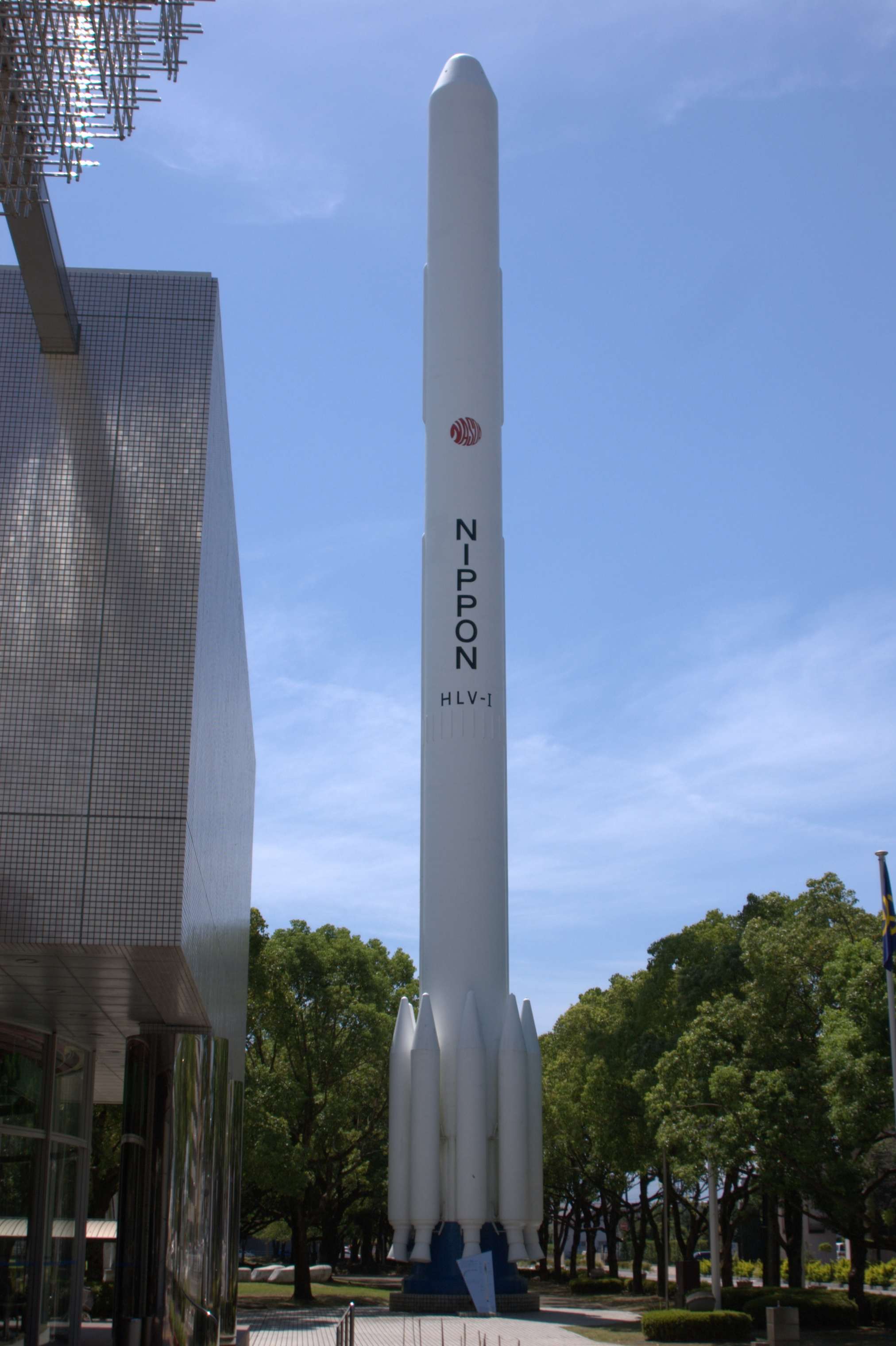 Full Scaled Model of NASDA's Satellite Launch Vehicle H-I displayed in front of Miyazaki Science Center.